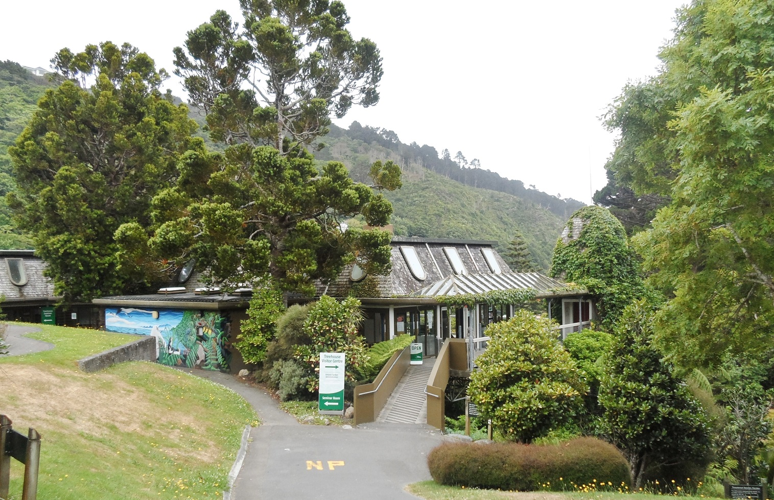 Treehouse, the Education and Environment Centre of Wellington Botanic Garden in New Zealand in 2015.